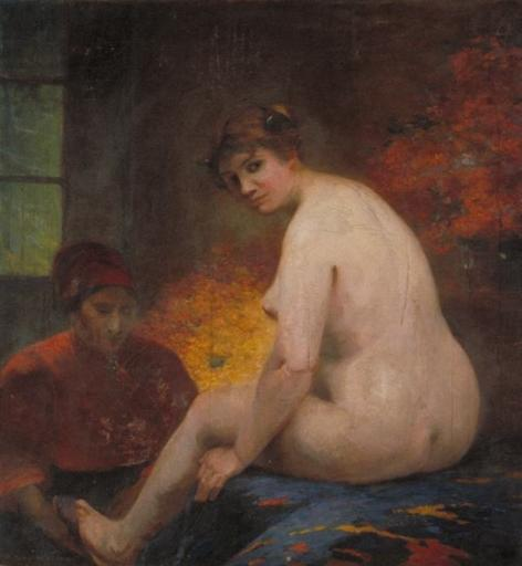 Lucette